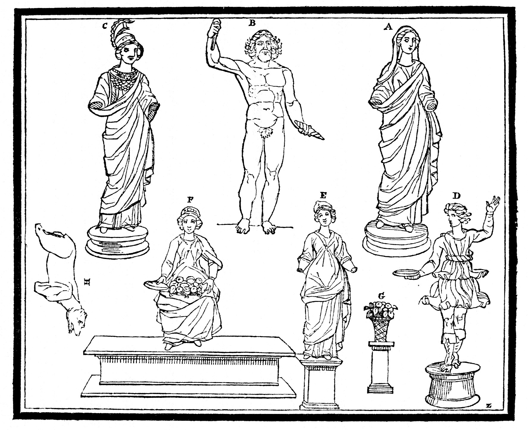 The Muri statuette group as first depicted in the Hinkender Bote of 1832.